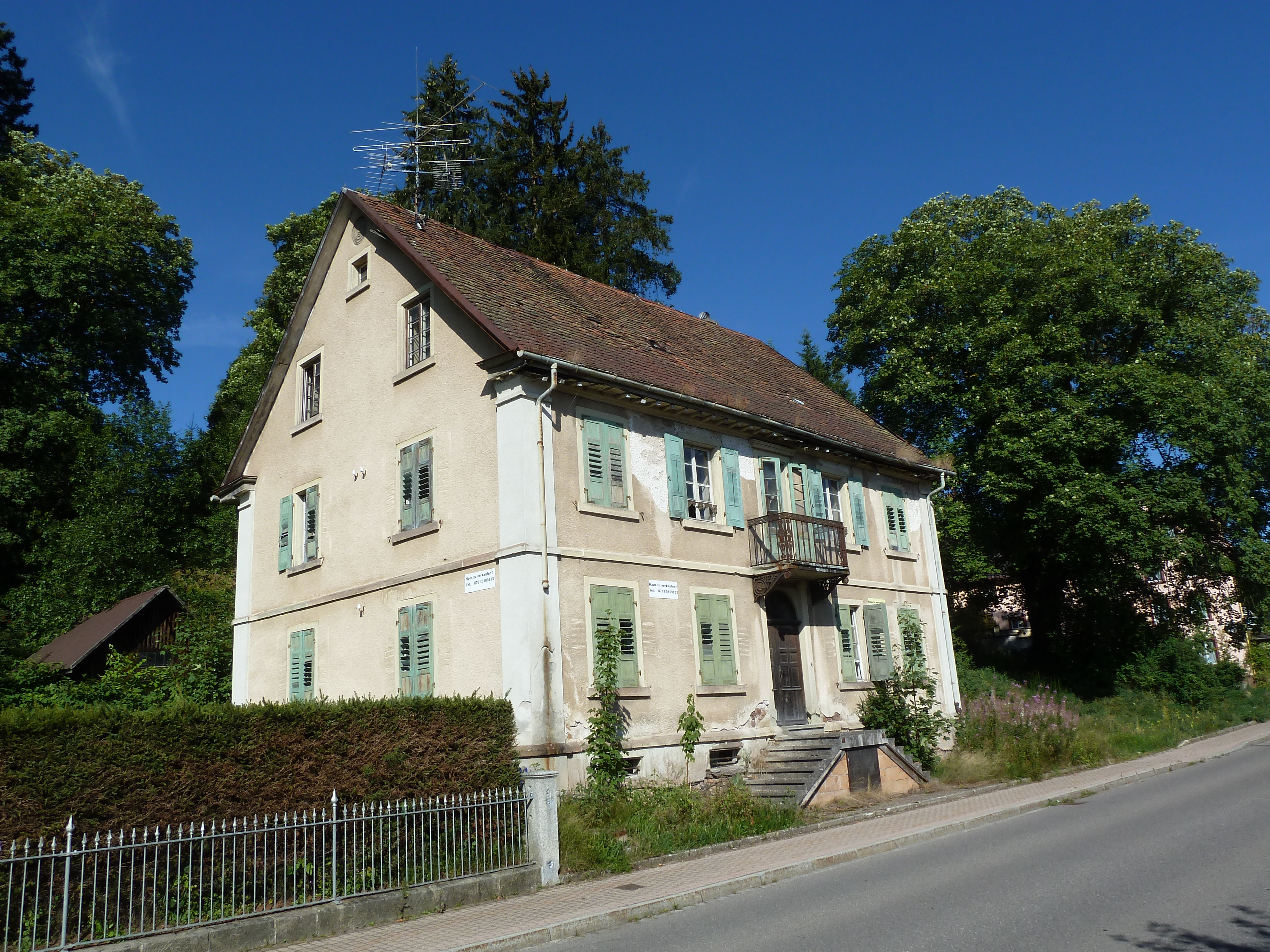 House bof Oskar Spiegelhalder in Lenzkirch (Freiburg Straße 23)